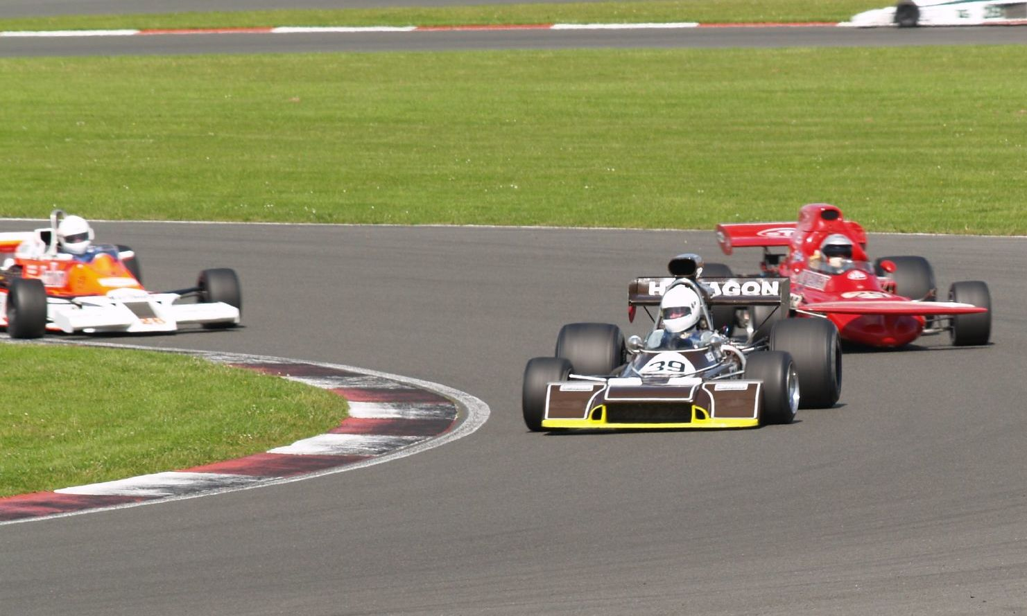 A Trojan T101 F5000 car leads March 711 (right) and McLaren M26 (left) Formula Once machinery, during the International Trophy race at the Silverstone Classic race meeting, July 2007. A Williams FW06 passes behind.